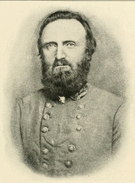 Confederate Lt. Gen. Thomas "Stonewall" Jackson photographed at Winchester, Virginia 1862.